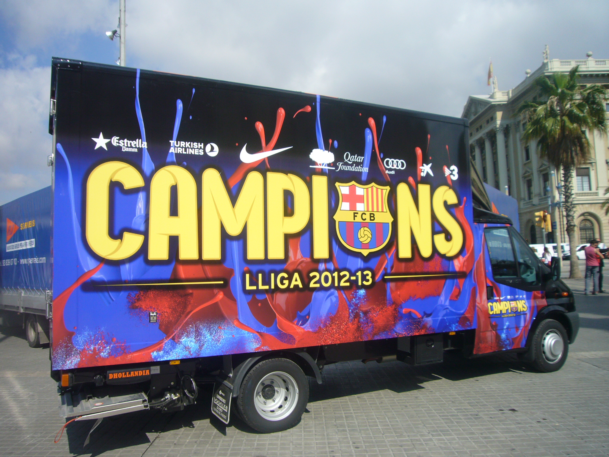 FC Barcelona vehicle prior to the Liga 2012-13 celebration parade